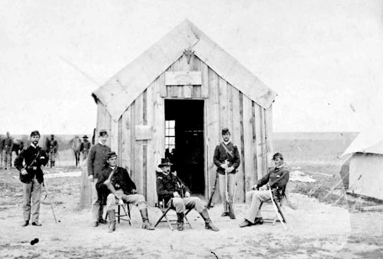 Officers at Fort Wallace, Kansas, with Dr. Theophilus Turner second on the left. Turner found the original fossils of the plesiosaur Elasmosaurus near Fort Wallace.